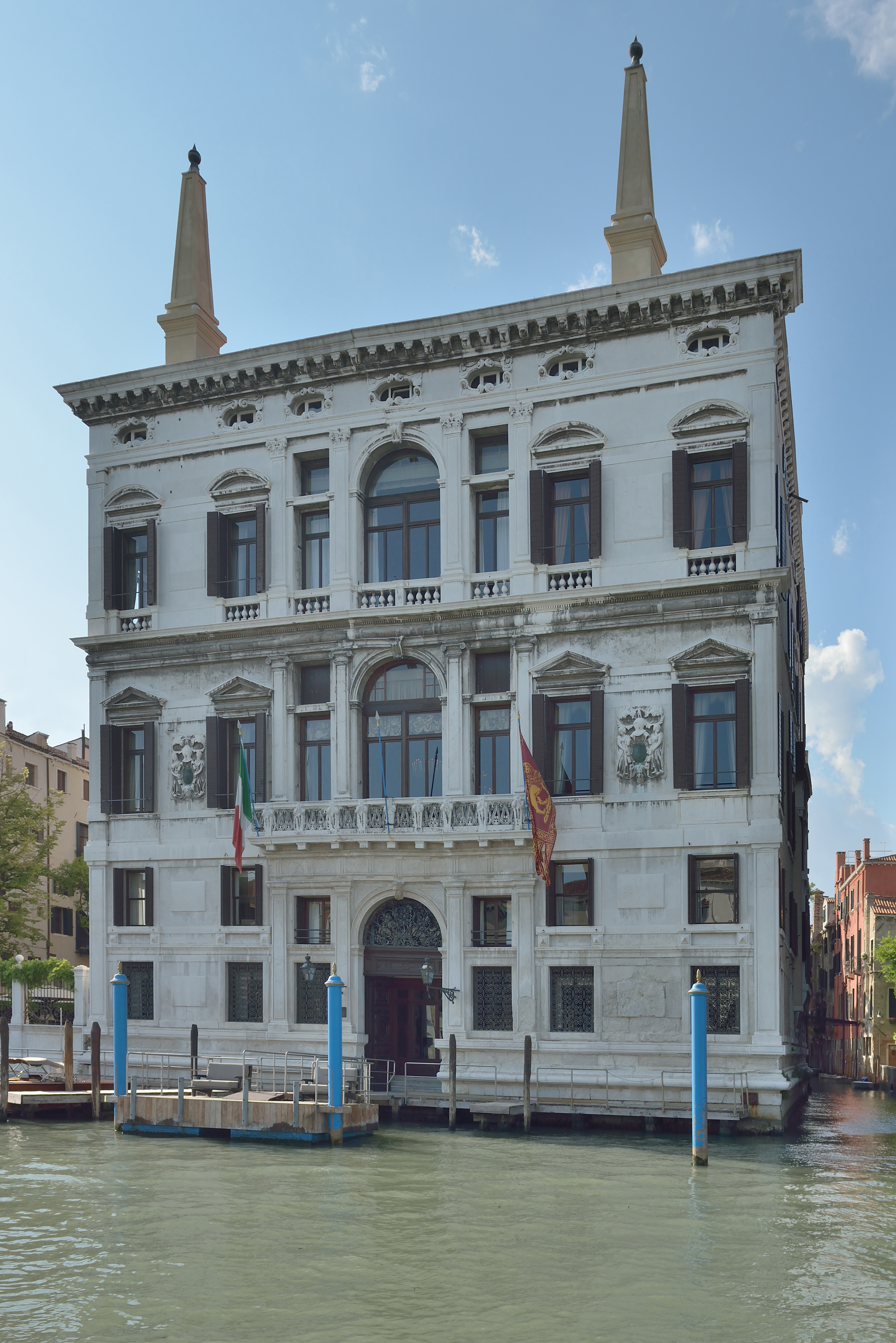 Palazzo Papadopoli in Venice. Facade on Grand Canal.